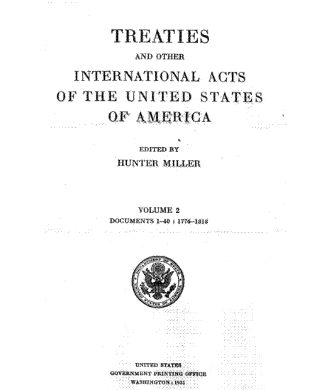 Title Page of Treaties and Other International Acts of the United States of America